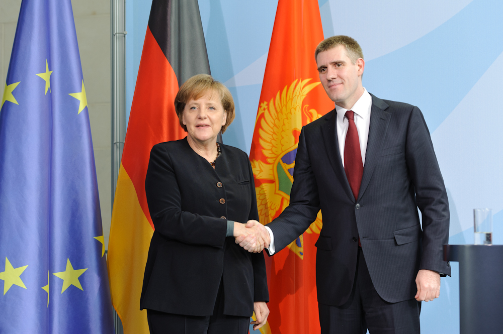 German Chancellor Angela Merkel together with Igor Luksic, Prime Minister of Montenegro